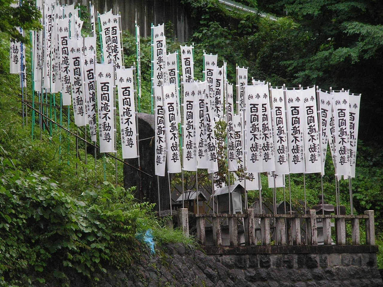 hyakken-taki-hudoson,百間滝不動尊の幟